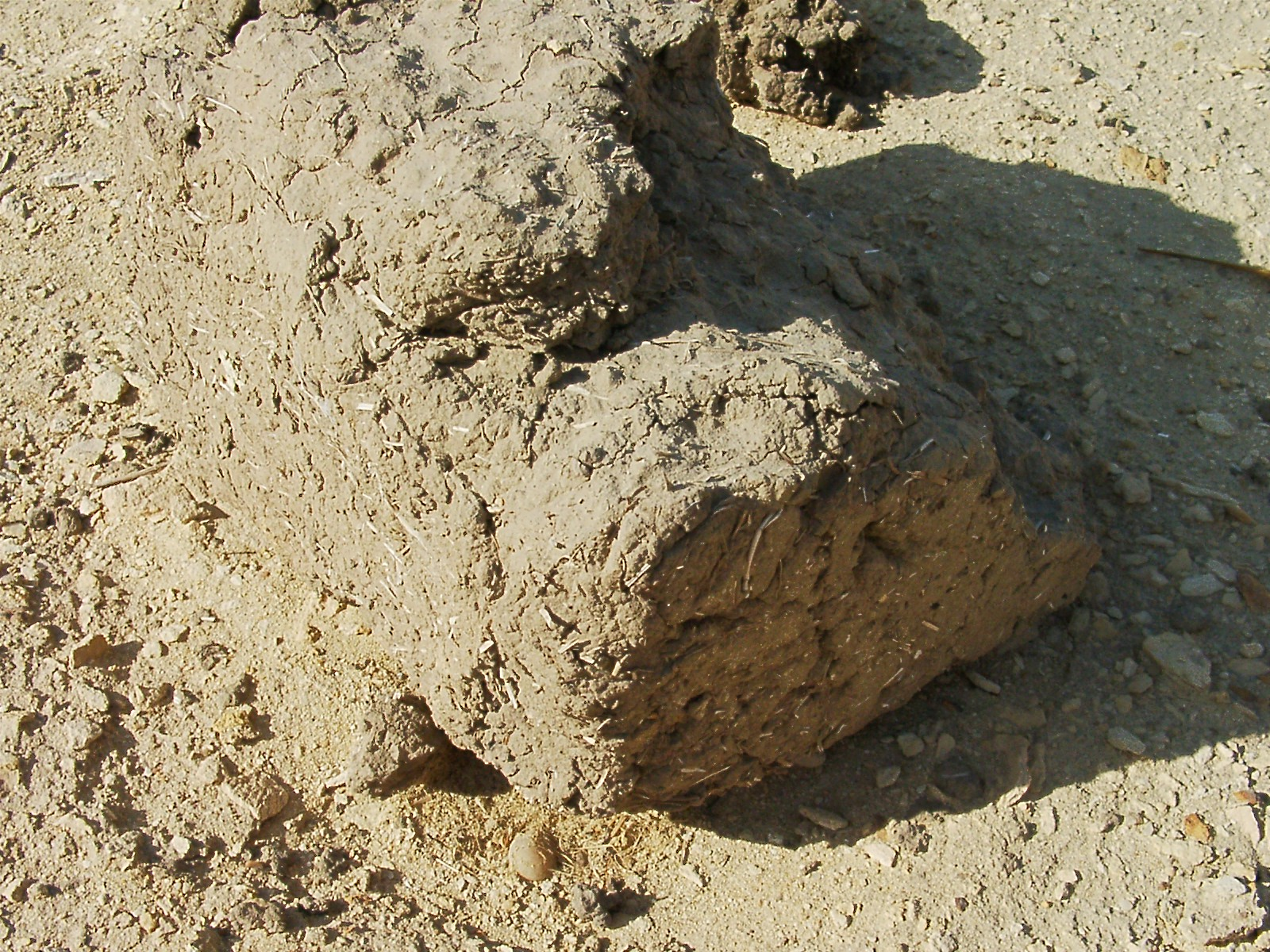 Mudbrick fallen from the Illahun Pyramid